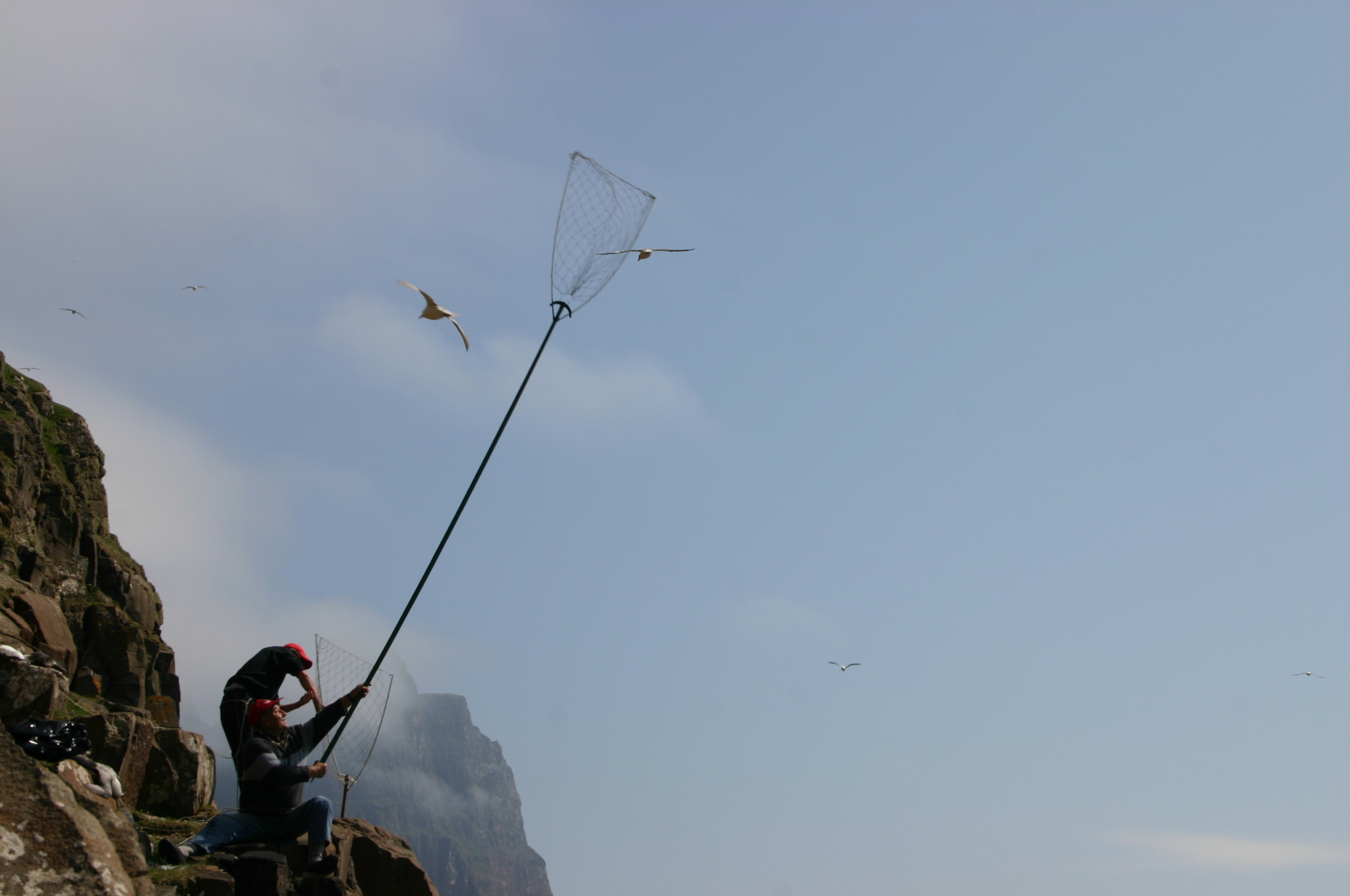 Fowlers in Lopranseiði, Suðuroy, Faroe Islands